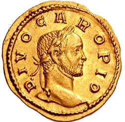 Portrait of Roman emperor Carus from an aureus